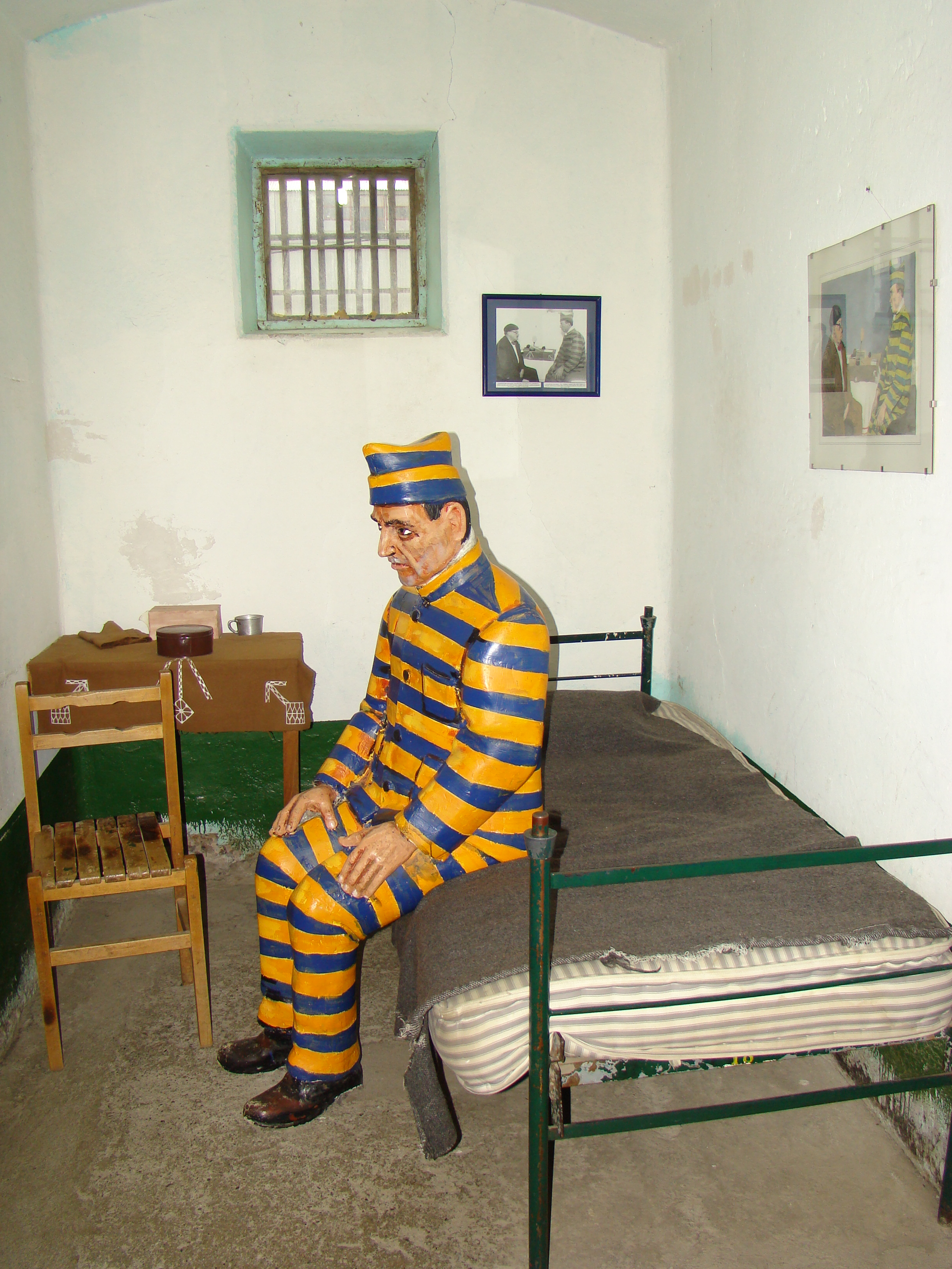 Ushuaia in Tierra del Fuego (Argentina). Recreation of a cell in the Museum of the Penal.